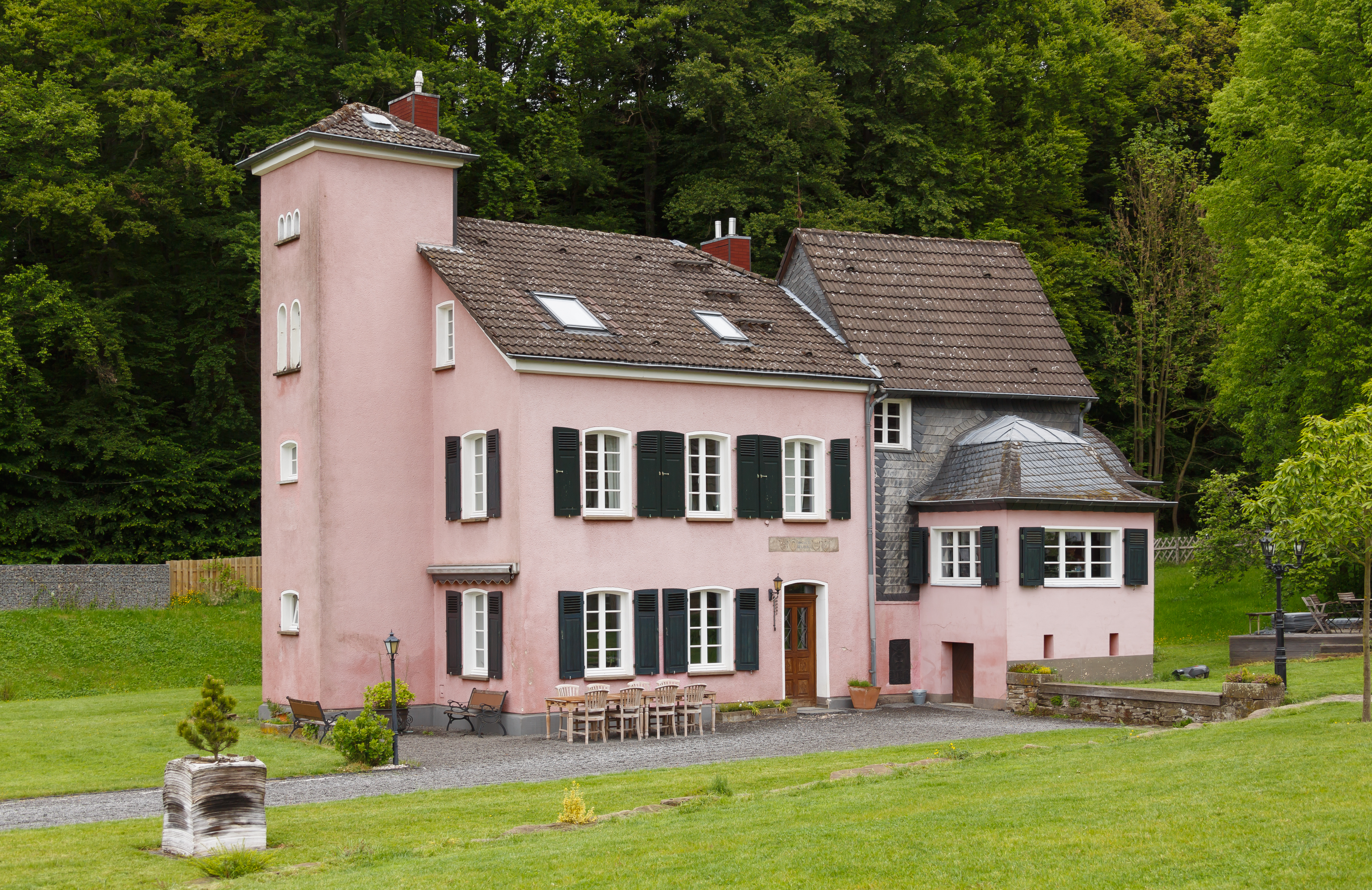 Rösrath, Deutschland: Listed building No 7: "Haus Stade"